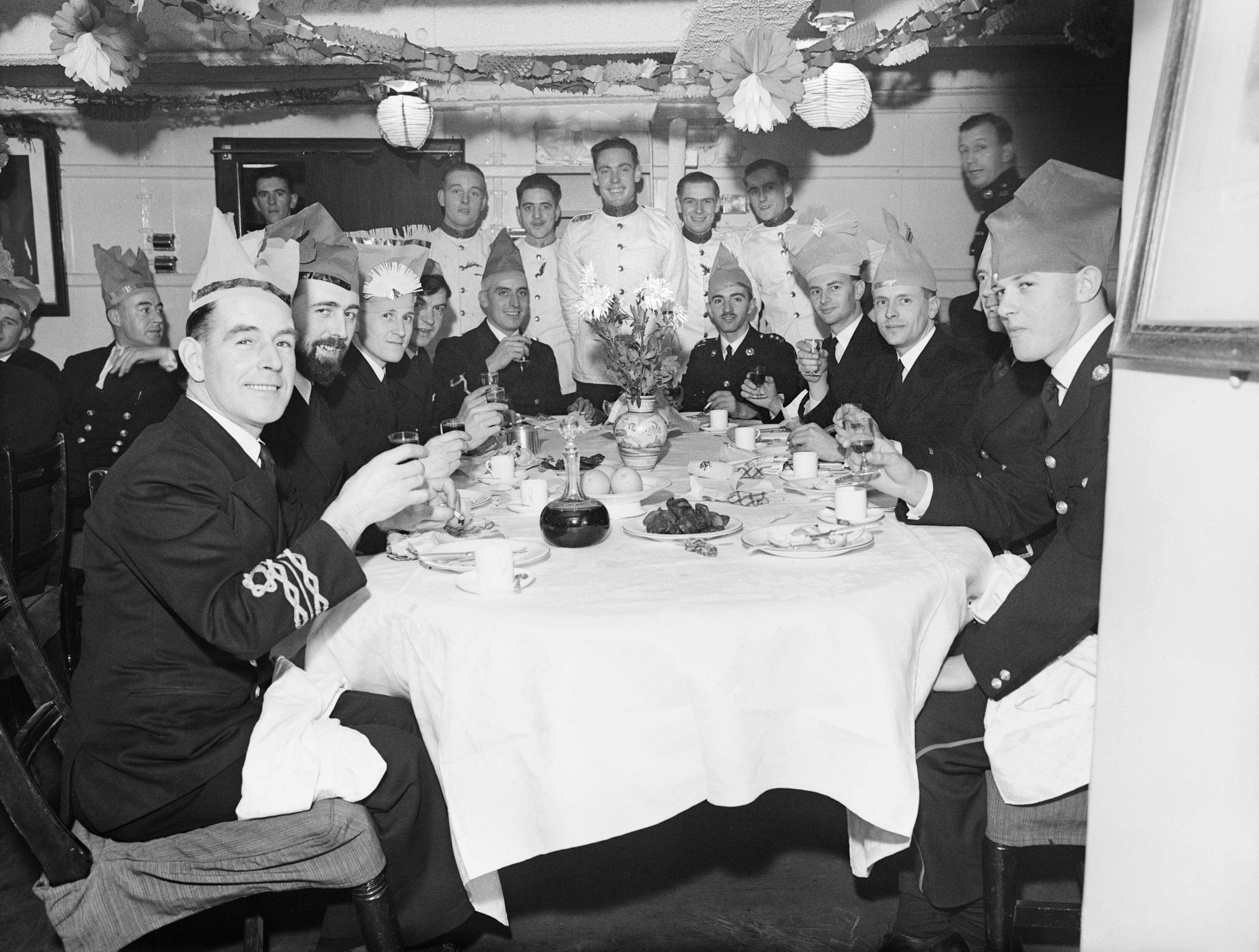 Christmas dinner in the wardroom of HMS MALAYA at Scapa Flow, 25 December 1942. Christmas dinner and celebrations in the wardroom of HMS MALAYA. The ship is based at Scapa Flow.